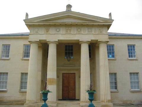 Description at en.wiki: "Downing College, Cambridge. Taken by a friend" Caption at Downing College, Cambridge: "The Maitland Robinson Library at Downing College"